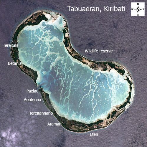 Astronaut photo of Tabuaeran, Kiribati with villages and main landmarks